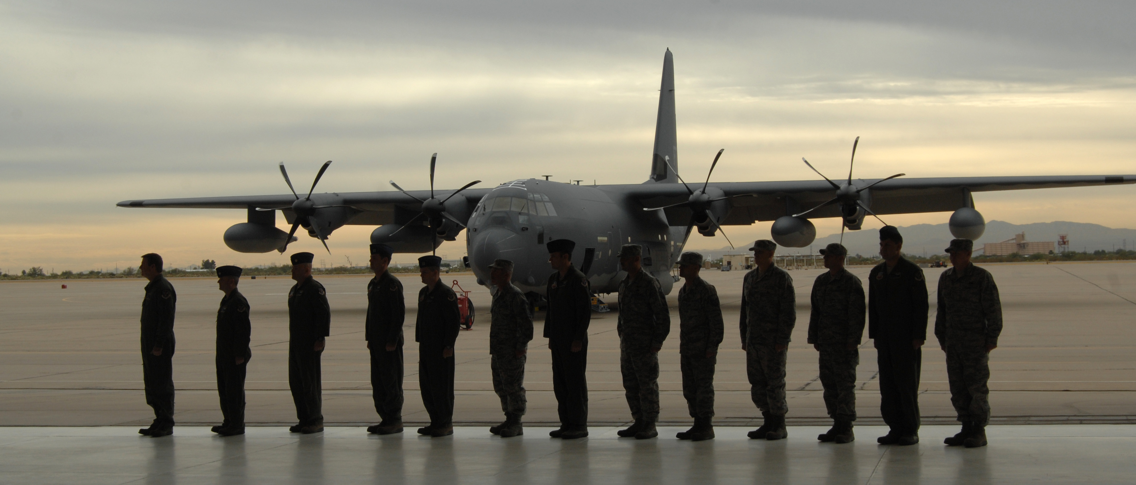 First combat-ready HC-130J arrives at Davis-Monthan Air Force Base: The crew of the HC-130J stands at attention in front of their plane on Davis-Monthan Air Force Base, Ariz., Nov. 15, 2012. The J model has new features including chaff and flare dispensers, threat detection capabilities and the ability to refuel inflight.